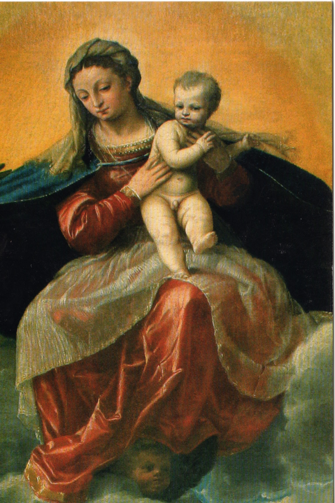 Maria with her Son and S. Battista, Antonio Abate, Benedetto, Biagio